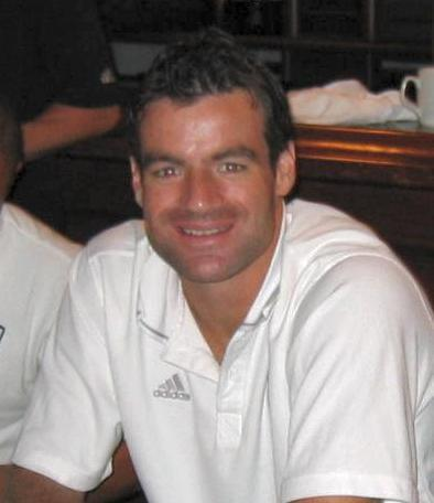 Photo of Ryan Nelsen taken by me at D.C. United meet-the-team day.